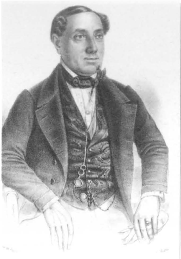 Miguel Chacón y Durán, primer Conde de Chacón